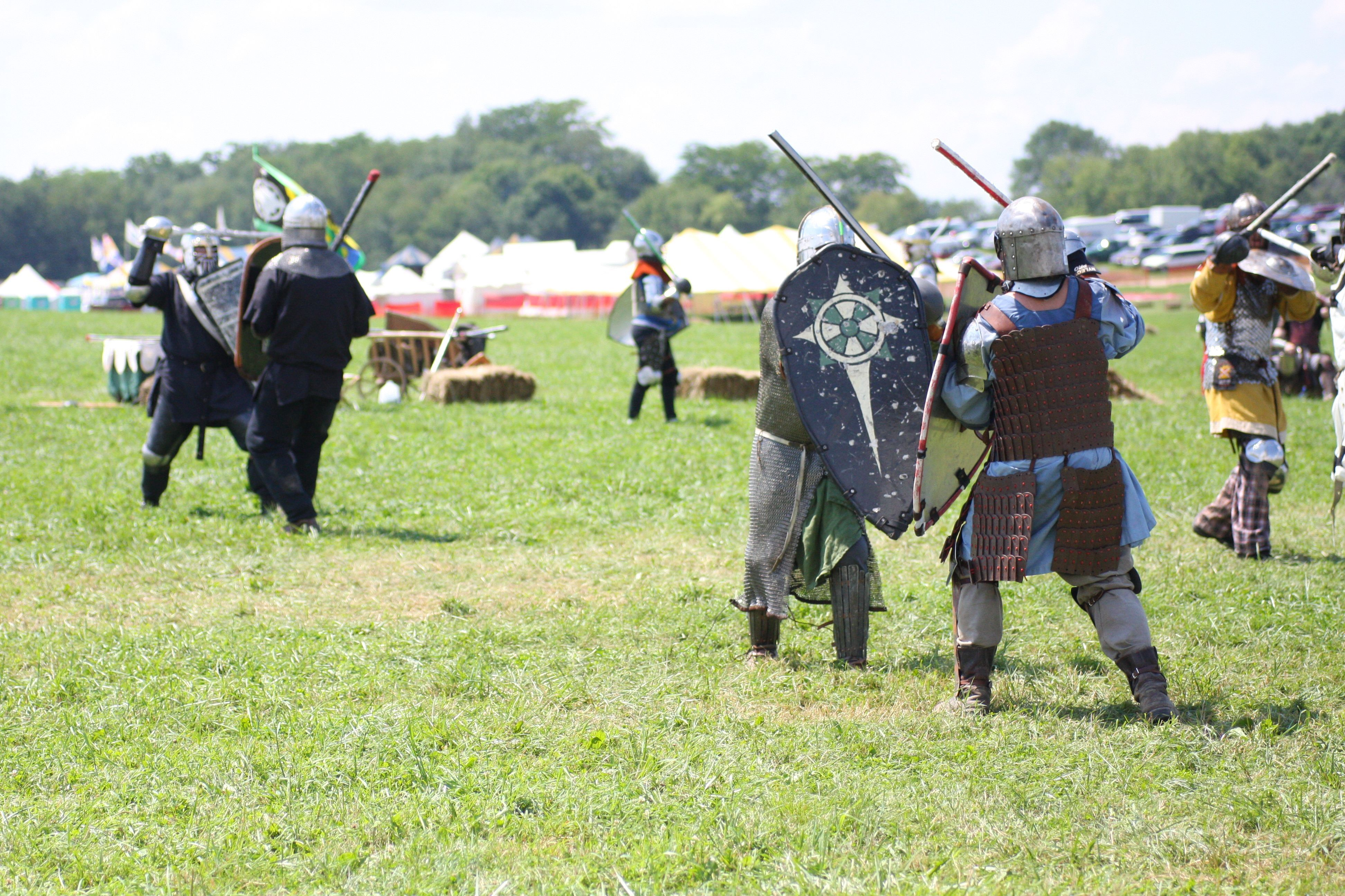 A group of SCA heavy fighters at Pennsic 38